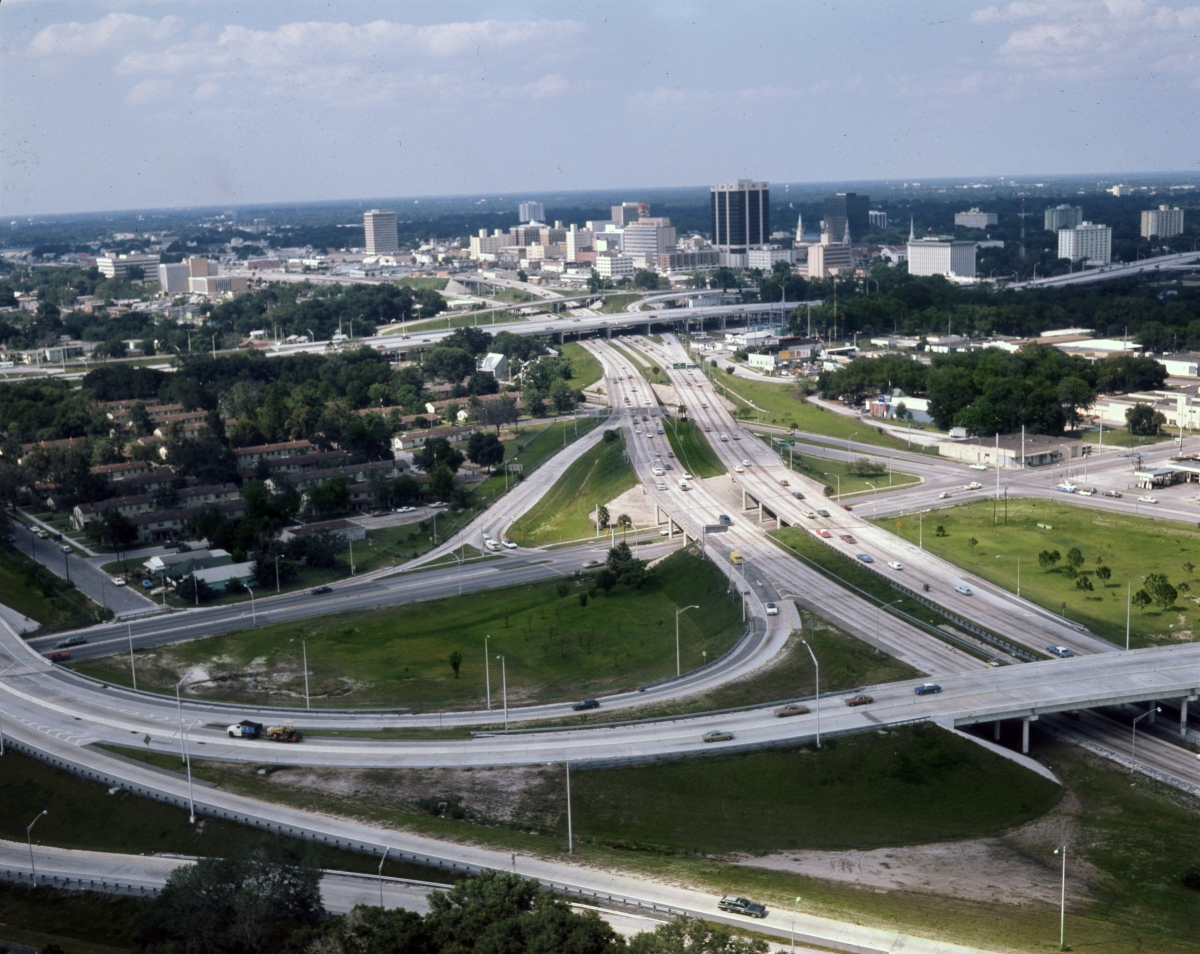 Downtown Orlando looking northeast, Interstate 4 is in the foreground, The Griffin Park Historic District is in the left foreground.